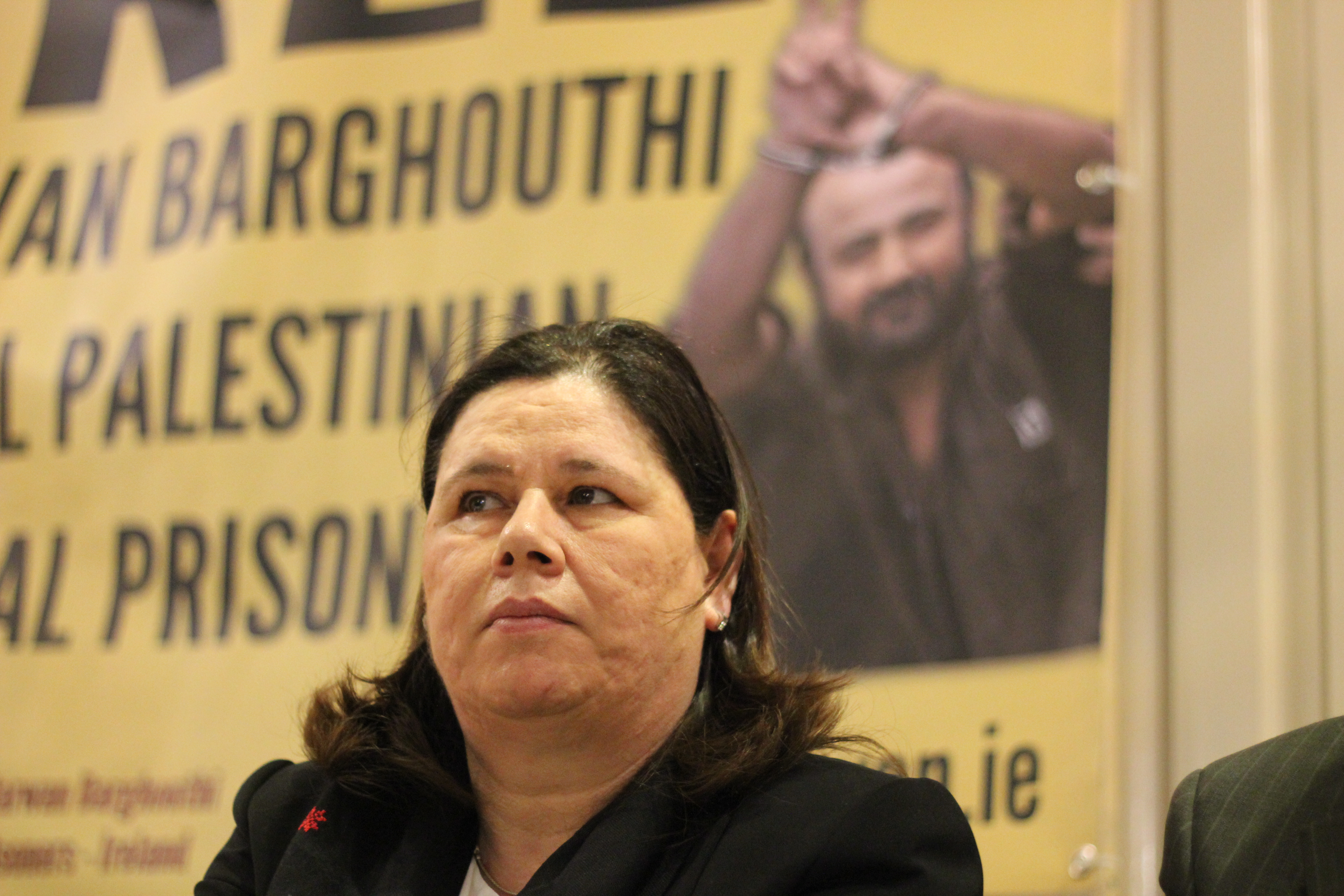 Free Marwan Barghouti and All Palestinian Prisoners